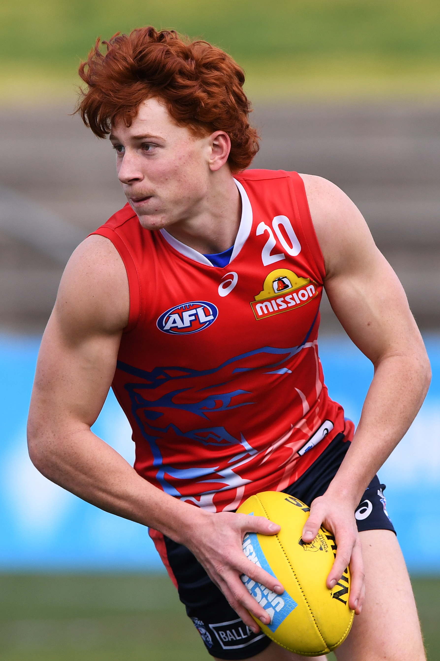 Ed Richards of the Western Bulldogs marking during Western Bulldogs training on 7 August 2018 at Whitten Oval in Melbourne, Victoria.